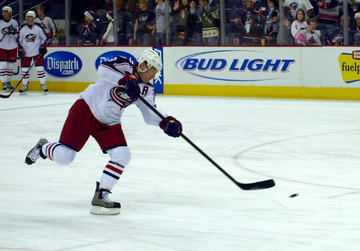 David Výborný, czech ice hockey player, Columbus Blue Jackets